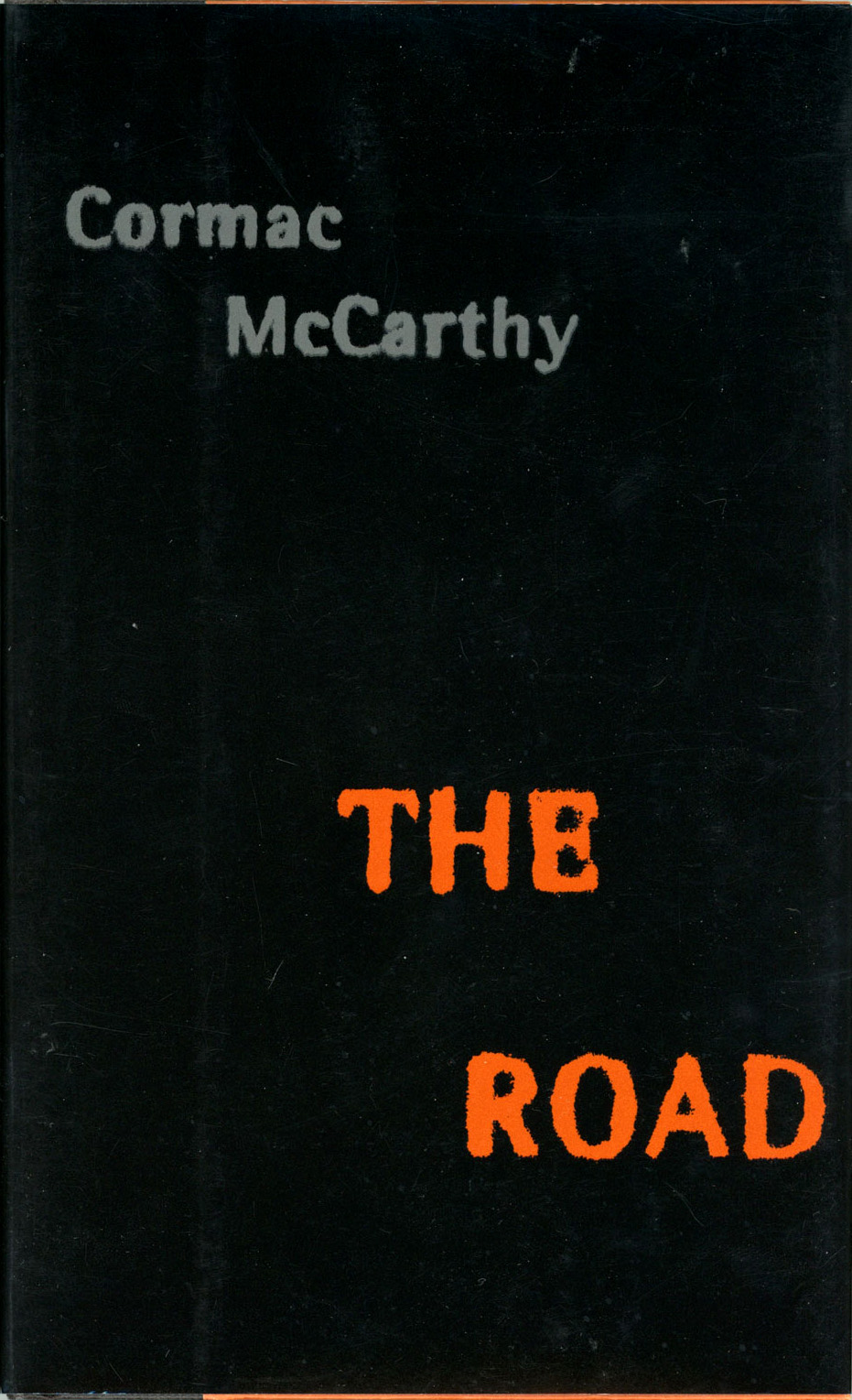 Cover of The Road, the tenth novel by American author Cormac McCarthy.